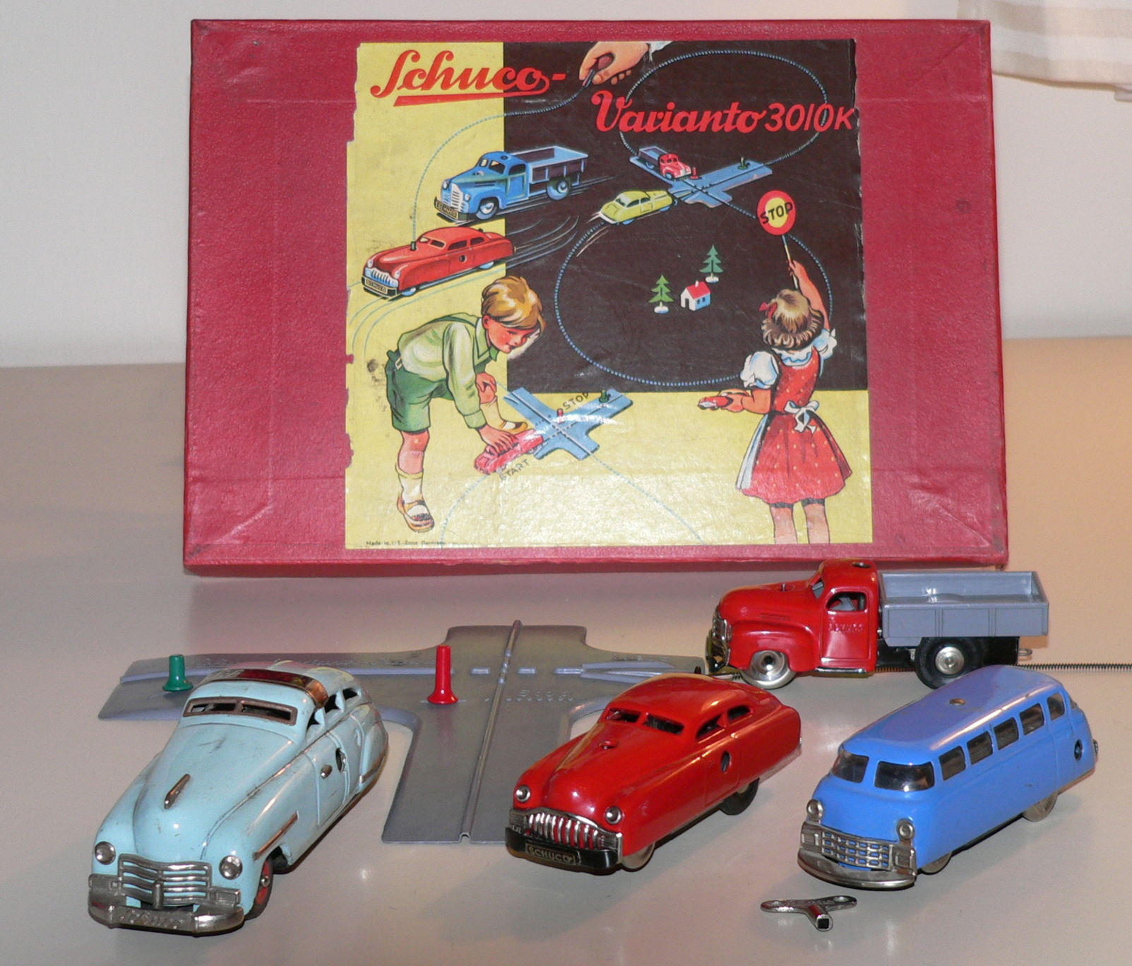 Toy car of Schuco (Varianto 30). ca. 1954, at the left a Schuco FEX from about 1947, at the right a Mirako, about 1955